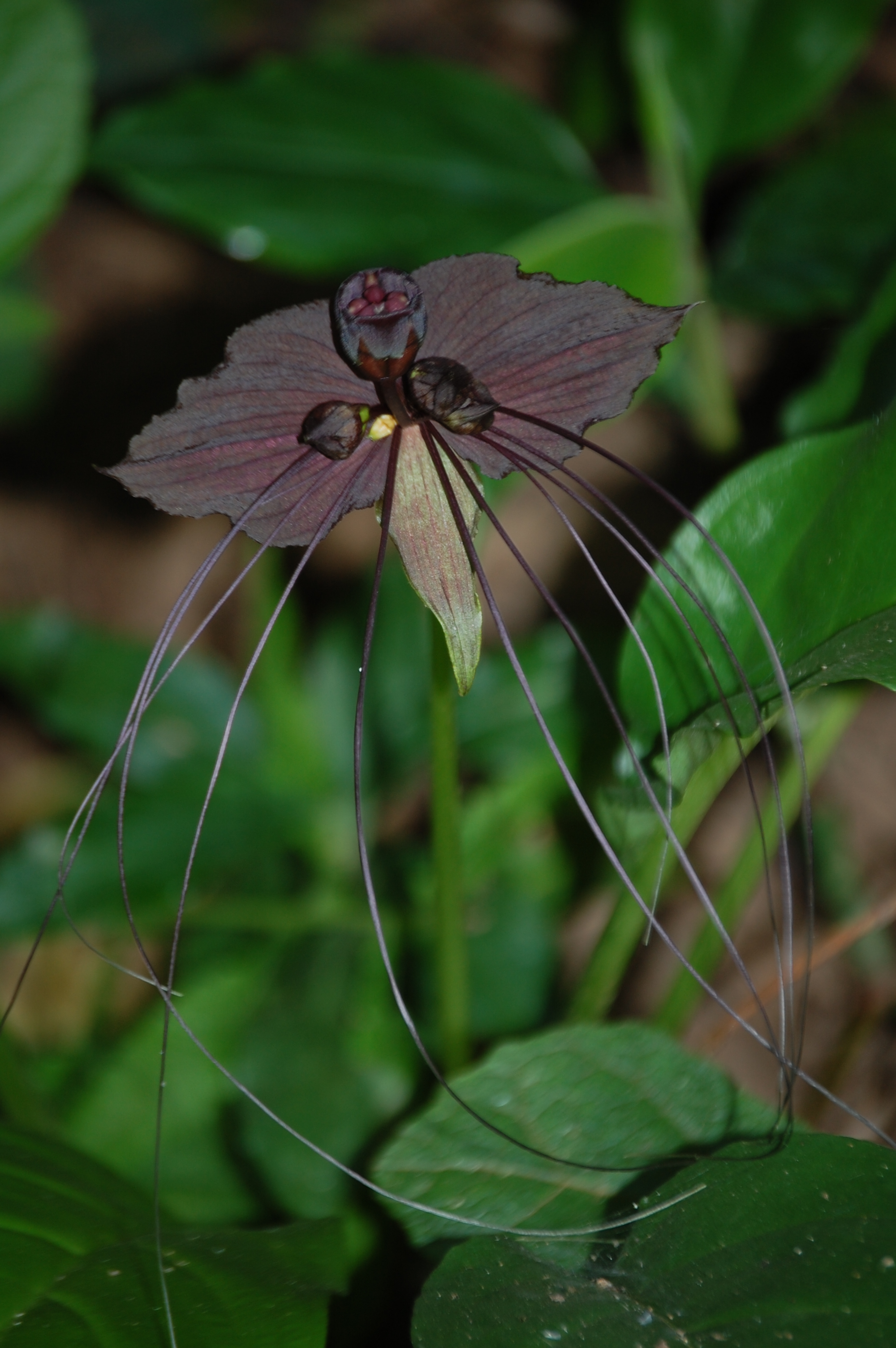 Tacca chantrieri